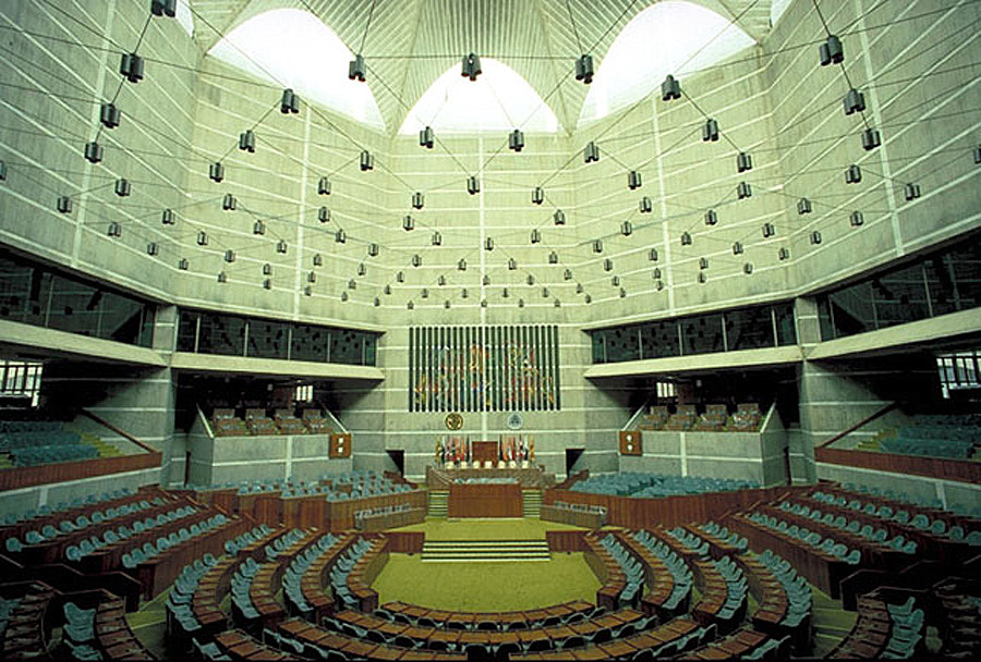 Jatiyo Sangshad Bhaban,Dhaka, Bangladesh